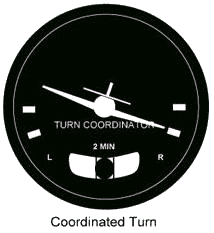 Drawing of a turn indicator when flying a coordinated turn.